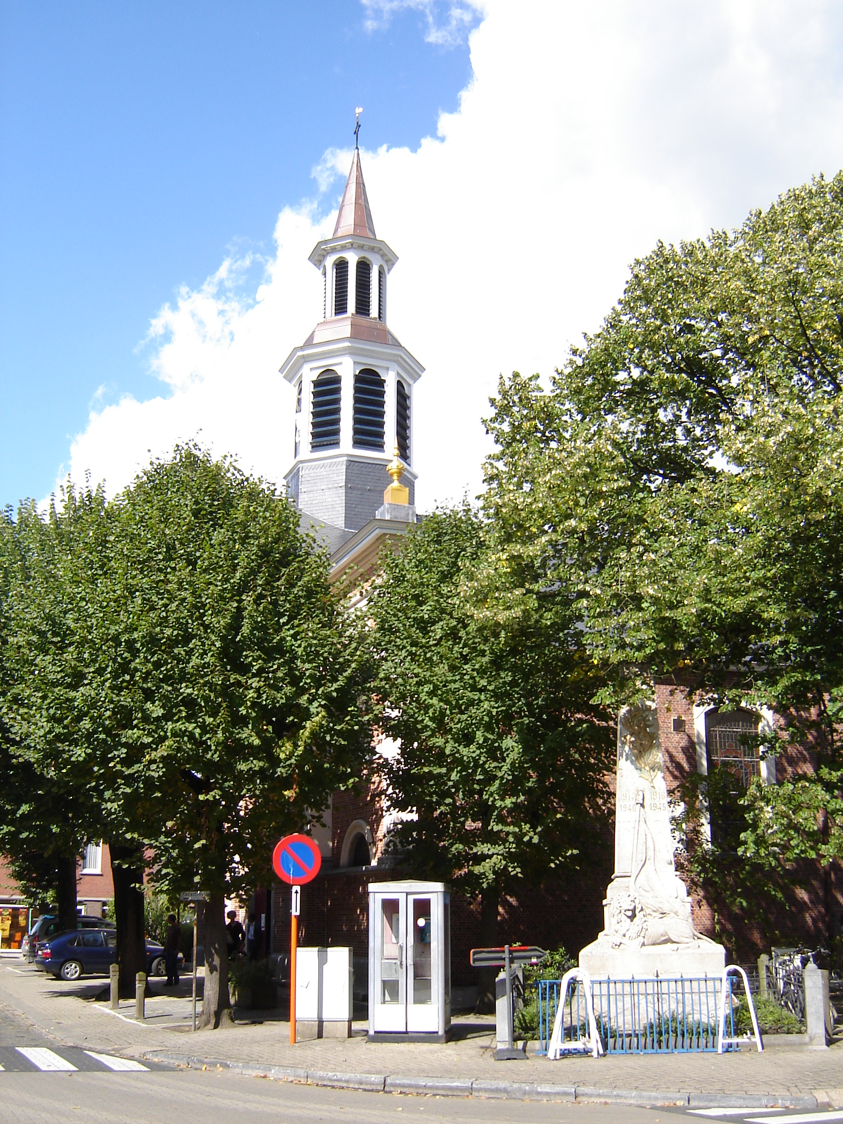 Church of Saint Cornelius in Meerdonk. Meerdonk, Sint-Gillis-Waas, East Flanders, Belgium